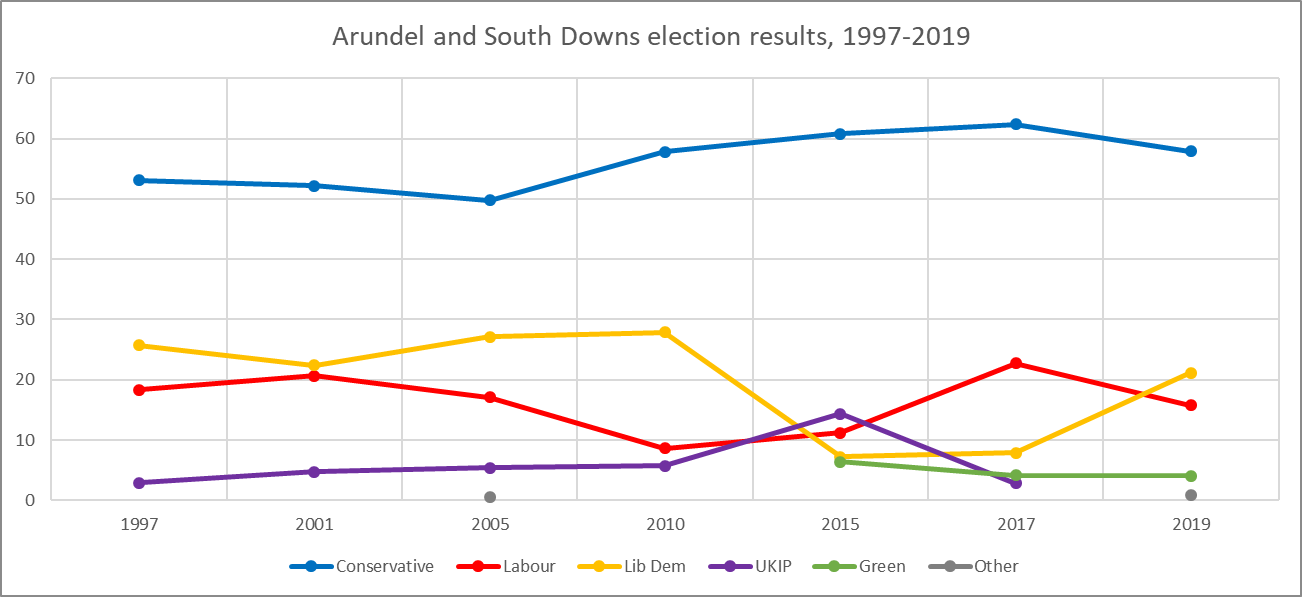 Graph showing election results for Arundel and South Downs constituency.